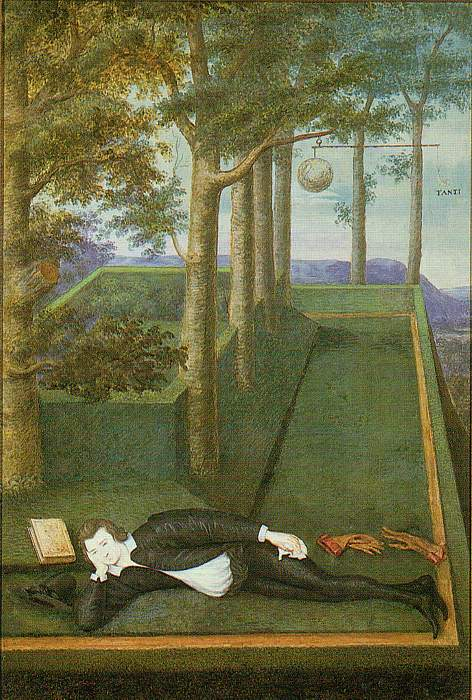 Henry Percy, 9th Earl of Northumberland